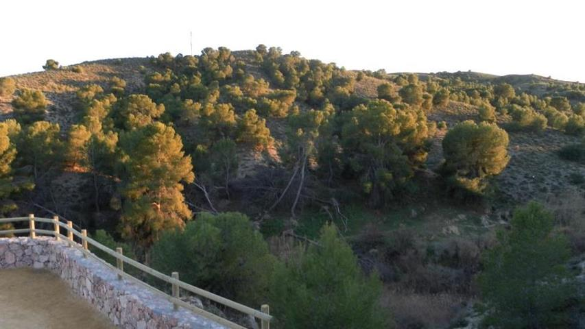 Paraje natural de La Rambla Salada.